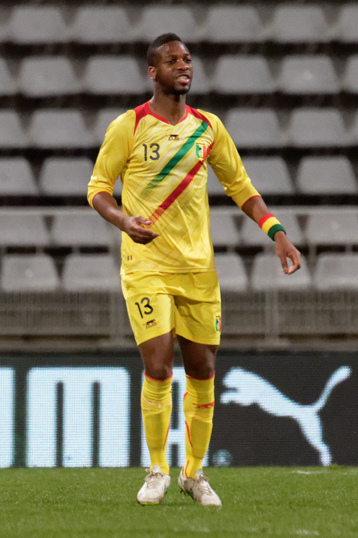 Mali vs Ghana, exhibition game at Paris, 31st March 2015.